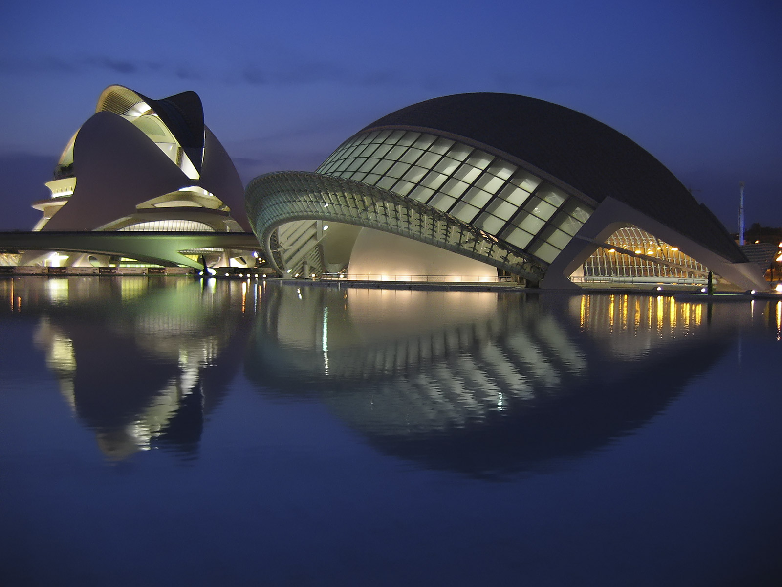 Author Chosovi Edited by Fir0002